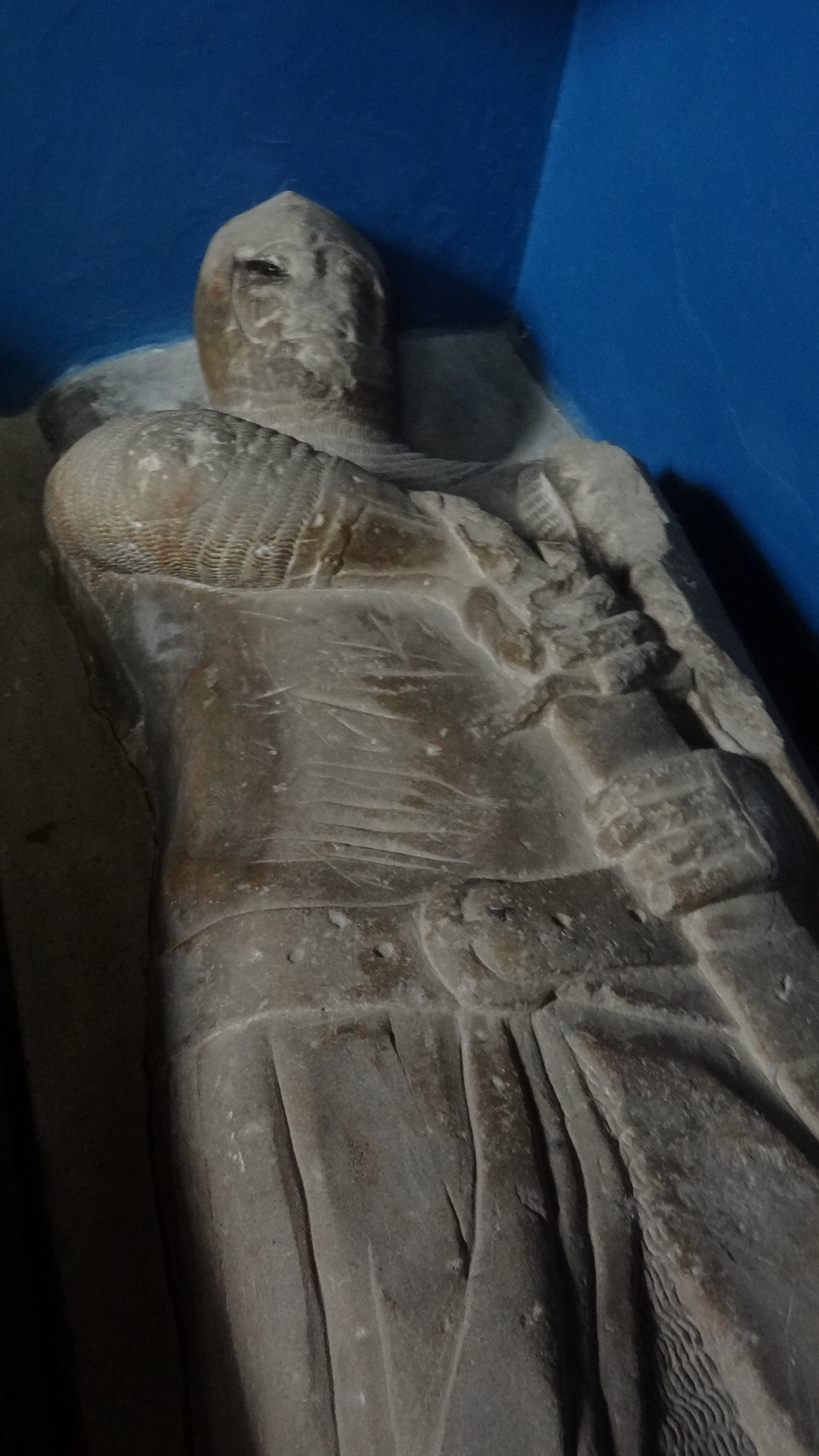 Memorial to Gruffudd ab Adda in Cadfan's church, Tywyn